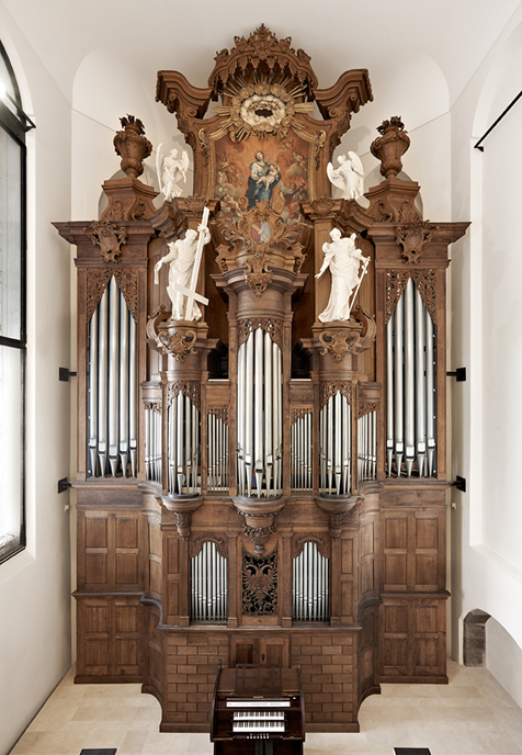 organ of the Augustiner Museum in 2010